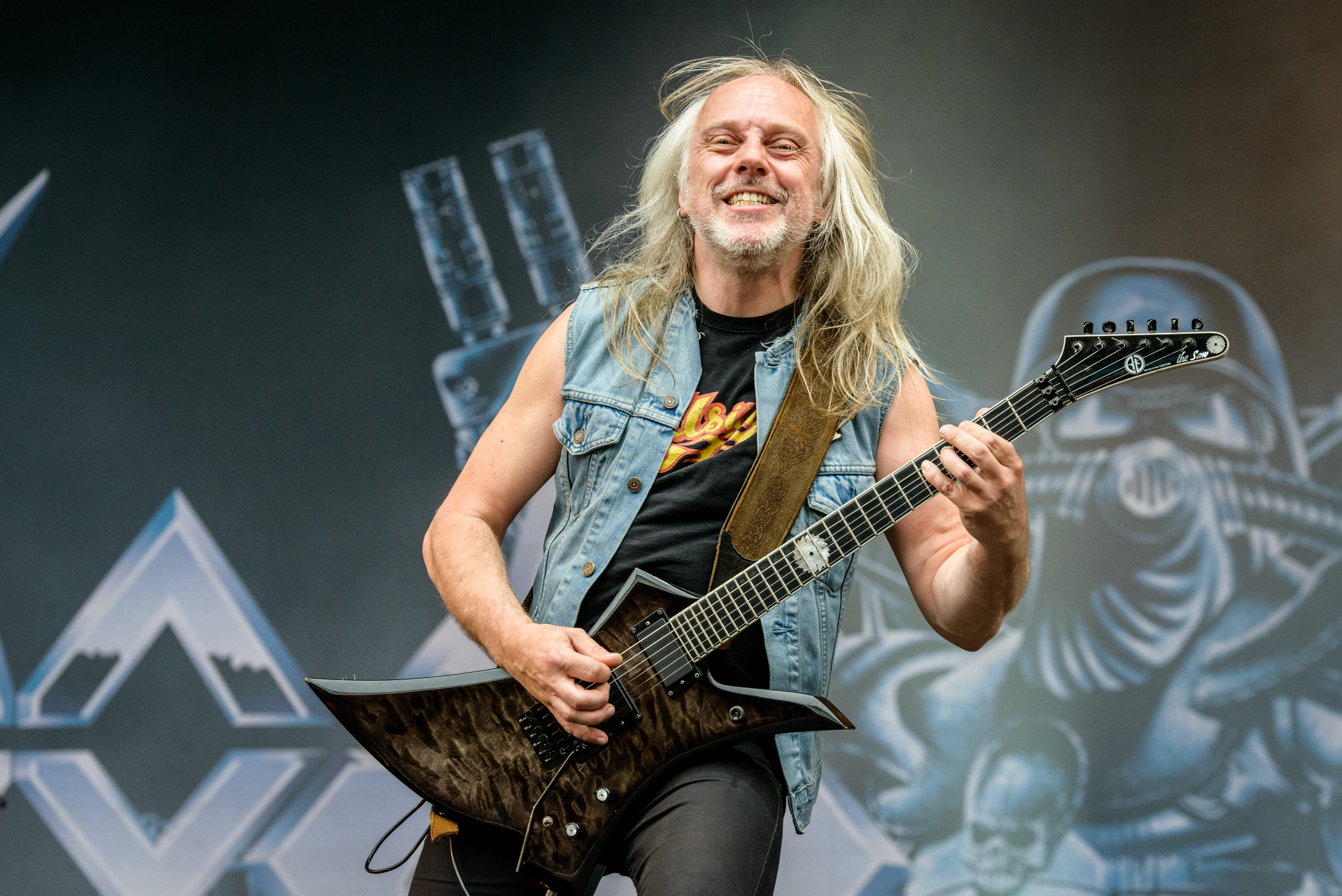 Sodom Live @ Rockavaria 2016